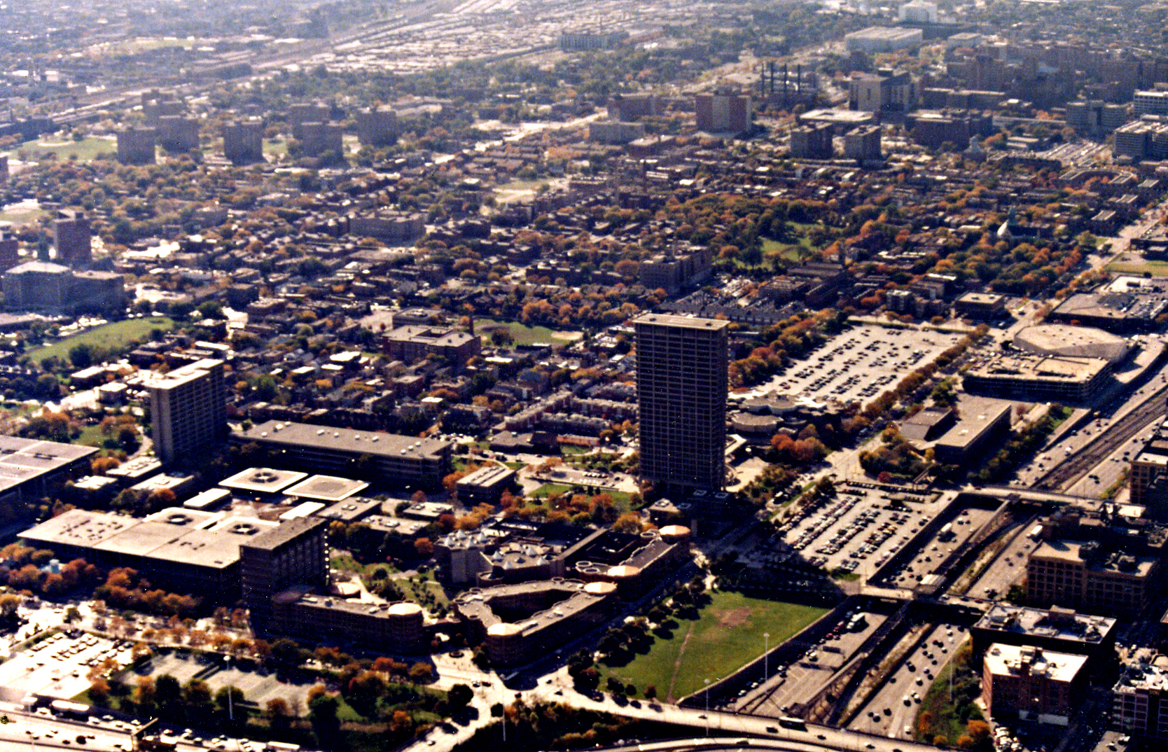 An aerial photograph of the University of Illinois at Chicago campus in 1994.